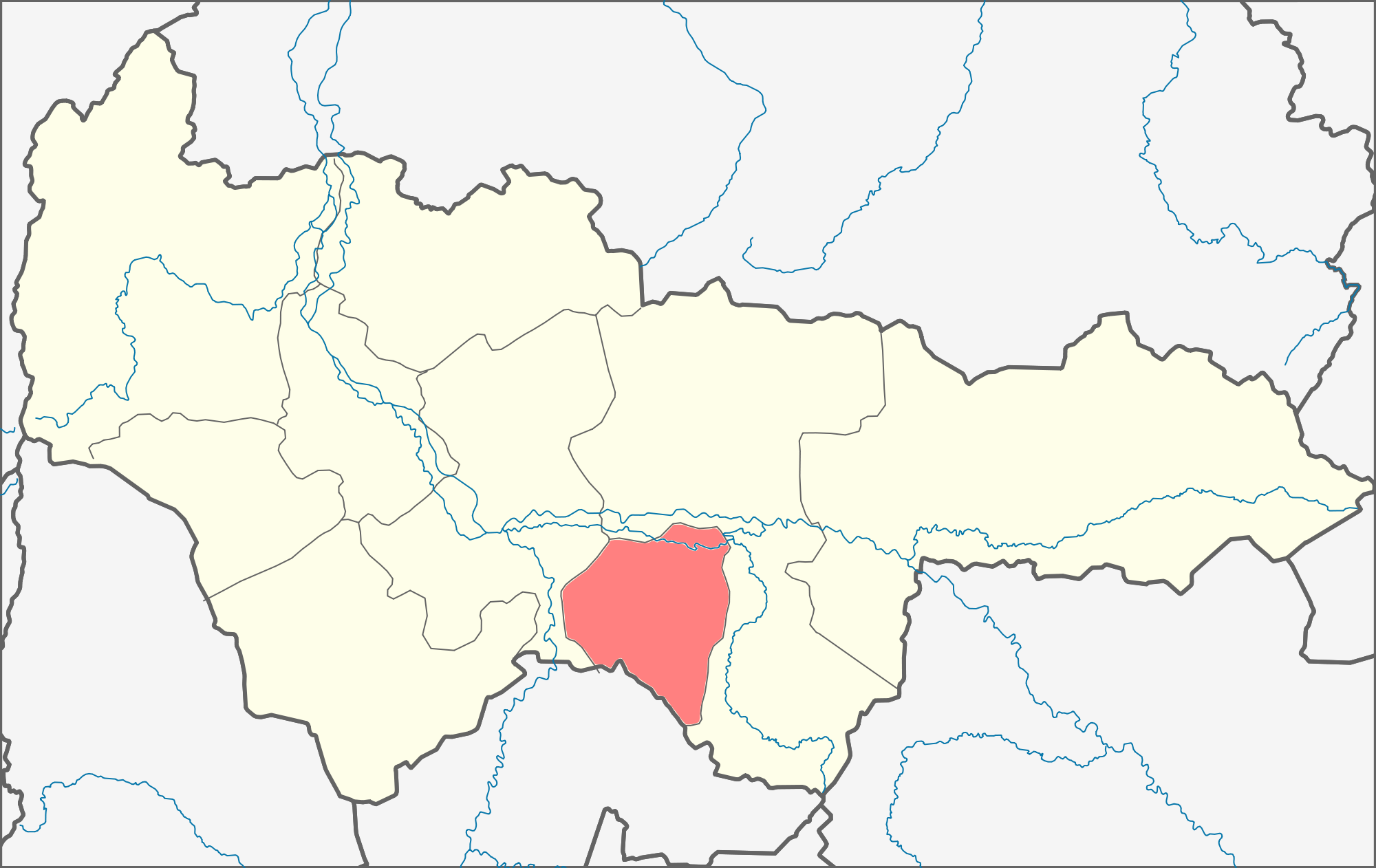 png-map of the Yugra-Nefteyugansky District in the Khanty–Mansi Autonomous Okrug, Russia. Derivative work, based on svg map with the same name, which was derivative work based on